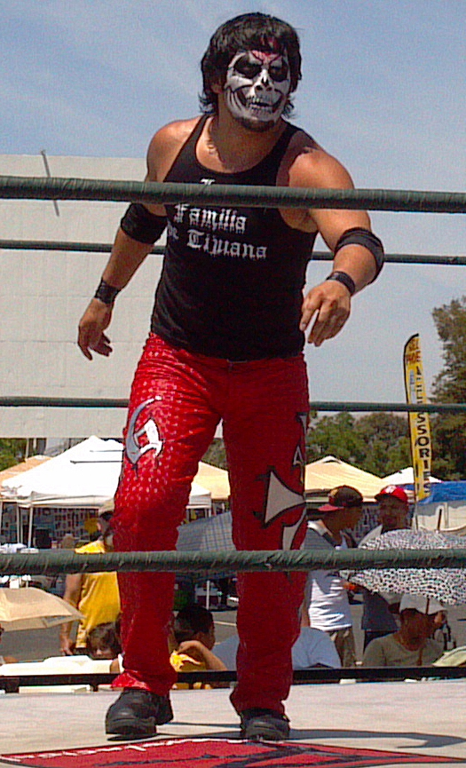 Copyright © 2012 Pro Wrestling Revolution. Any use of this image without the permission of the photographer is in violation of the copyright.